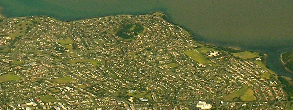 Aerial photo of Mount Warrigal a suburb near Wollongong